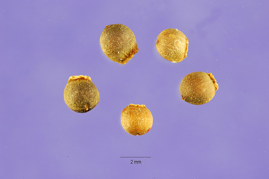 Seeds of Fumaria capreolata